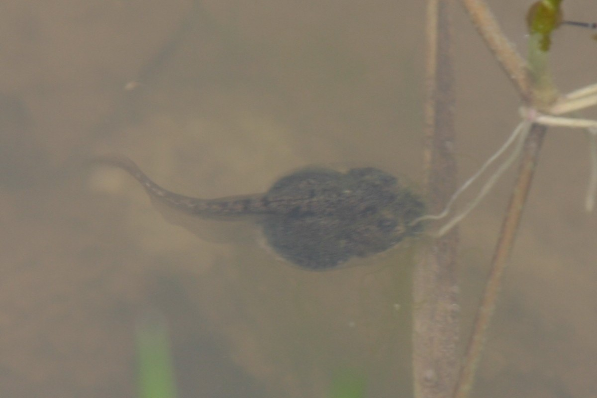 Tadpole of the yellow-bellied toad (Bombina variegata) photographed in Weinsberg